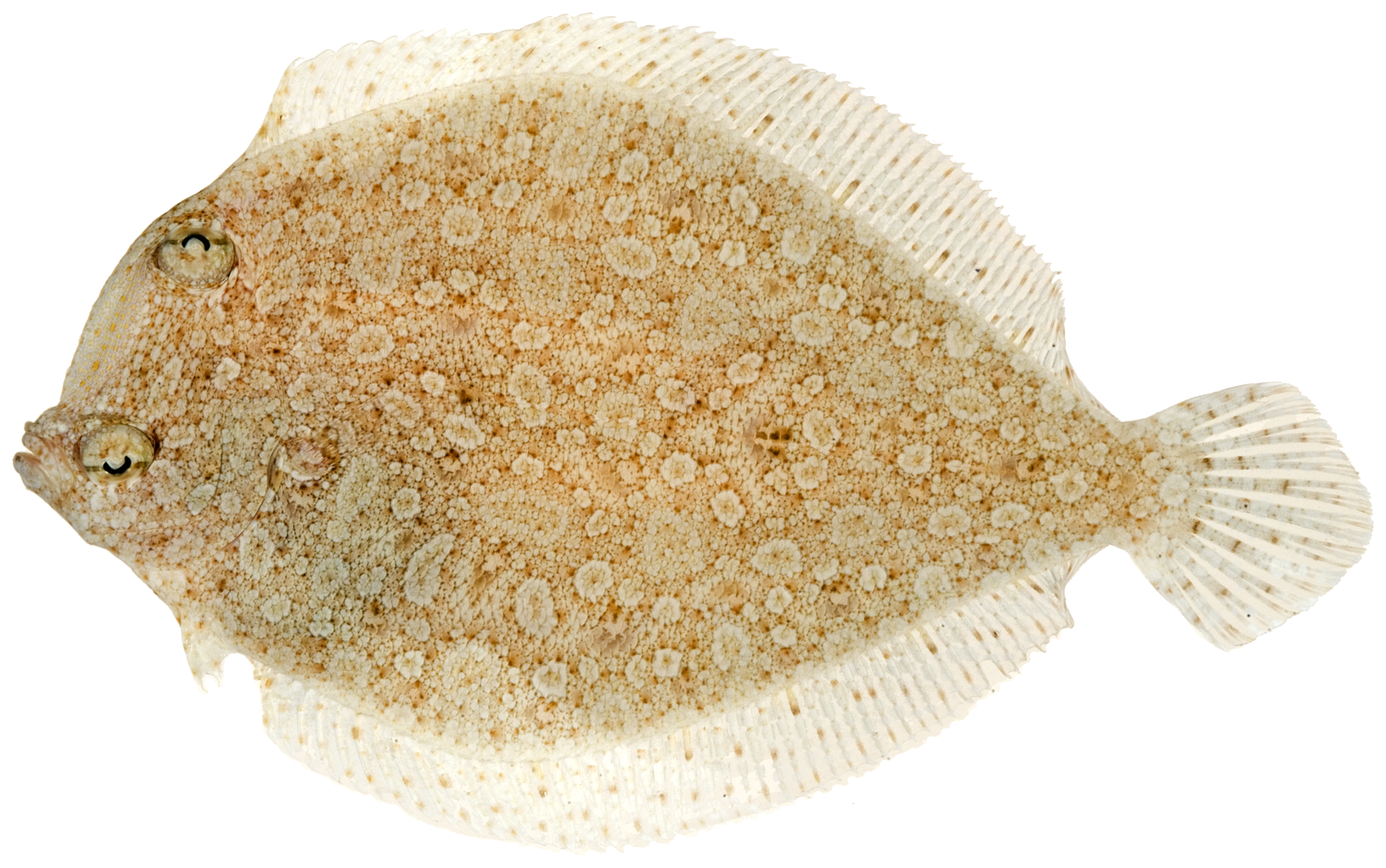 Bothus ocellatus (Agassiz, 1831)—eyed flounder, 95.8 mm SL. Photo by JT Williams.